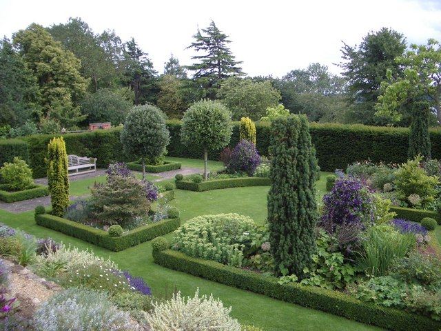 The Garden at Hambledon Hall Viewed from the south terrace, the attractive garden shown here at Hambledon Hall has spectacular views overlooking the southern stretch of Rutland Water reservoir.